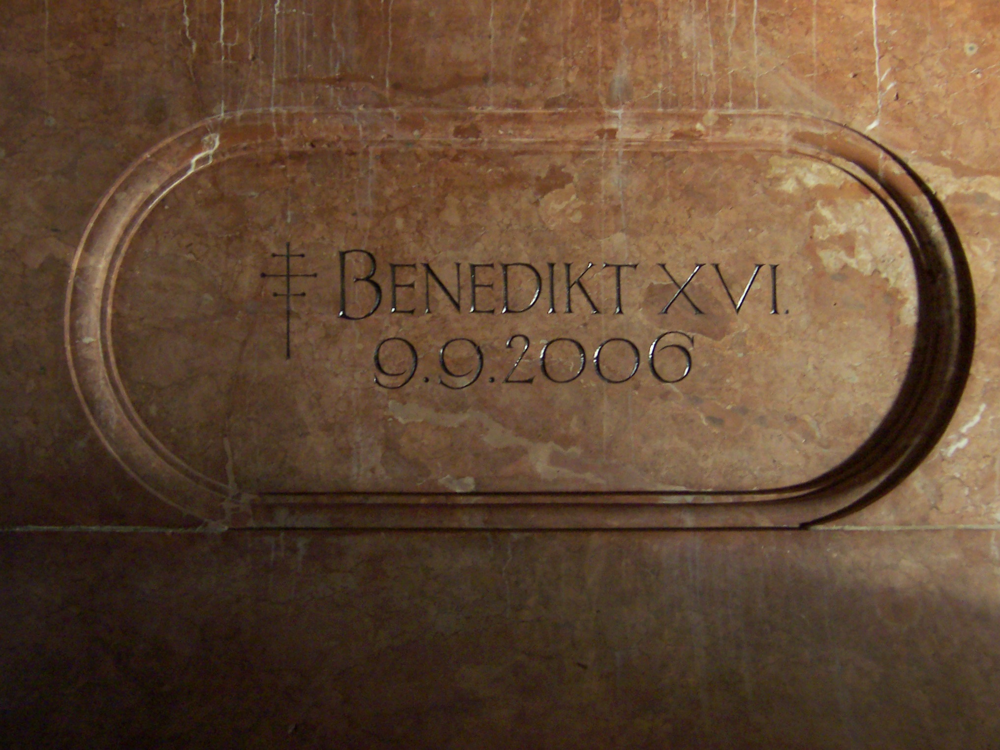 Engraving on the Marian column of Munich: the date of the visit of Pope Benedict XVI.